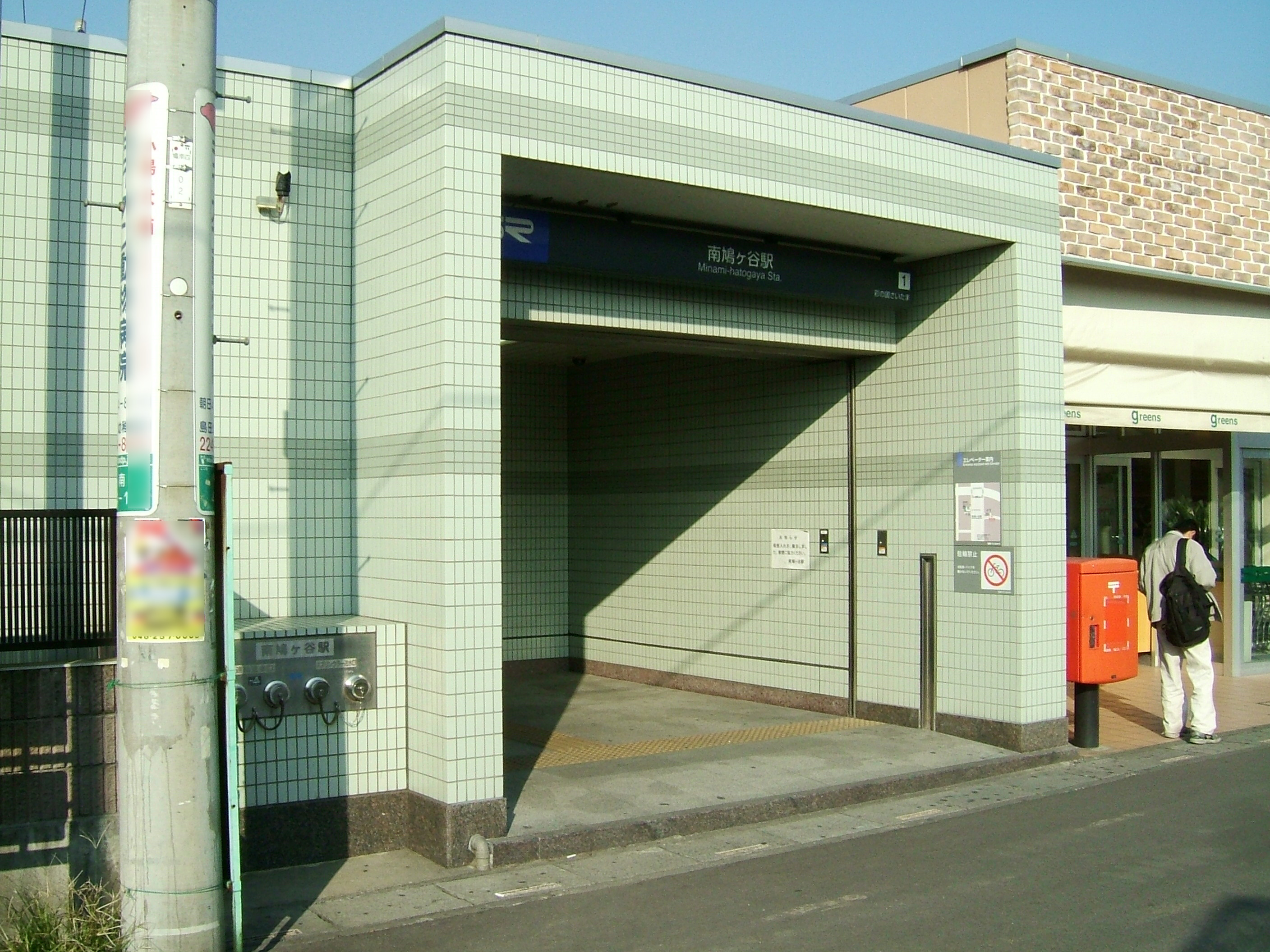 No. 1 Exit at Minami-Hatogaya Station on the Saitama Rapid Railway Line